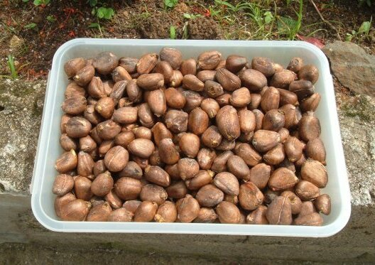 Breadnut fruit from the Brosimum alicastrum tree